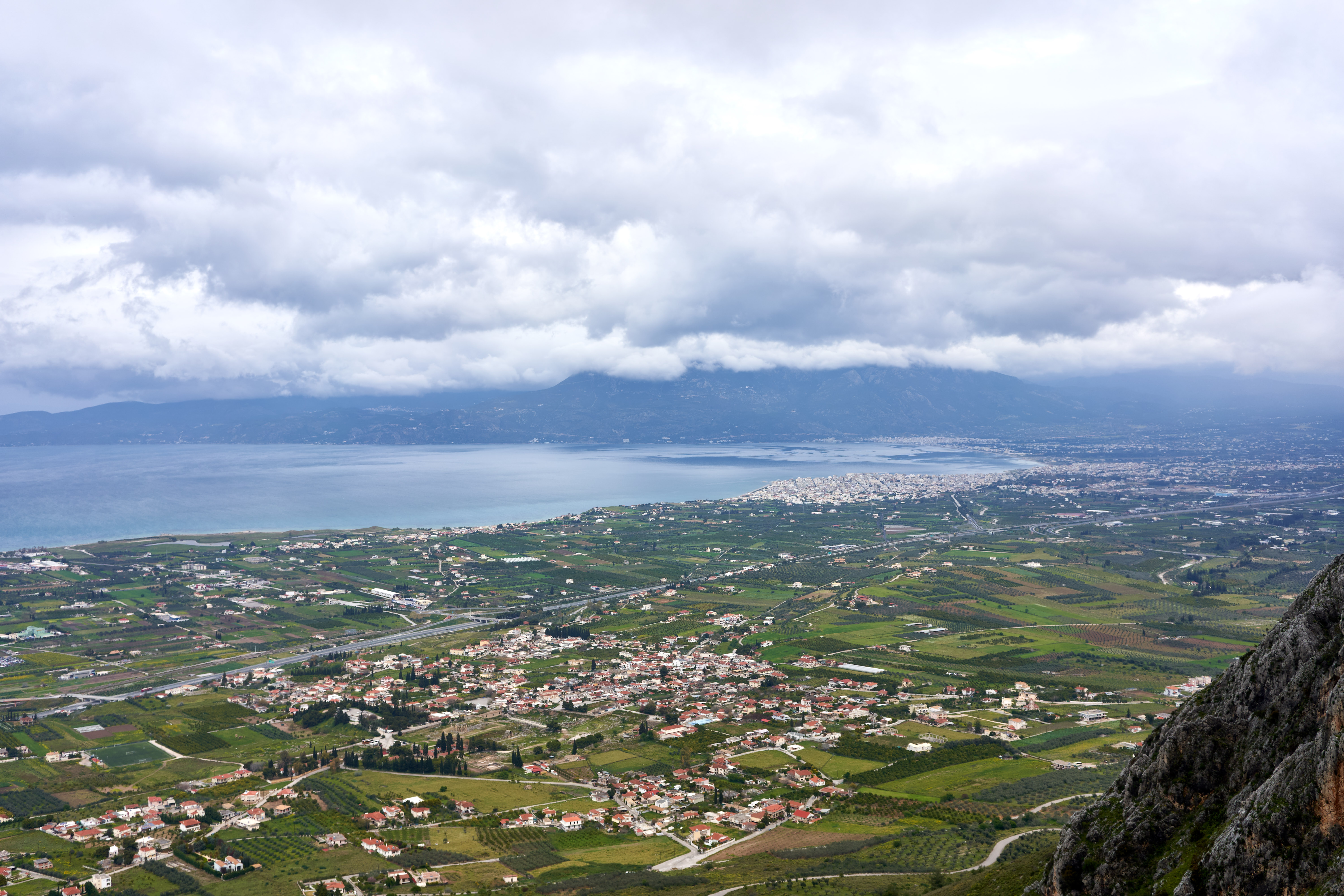 View of the Gulf of Corinth and the modern city of Corinth from the Castle of Acrocorinth. Corinthia, Greece.